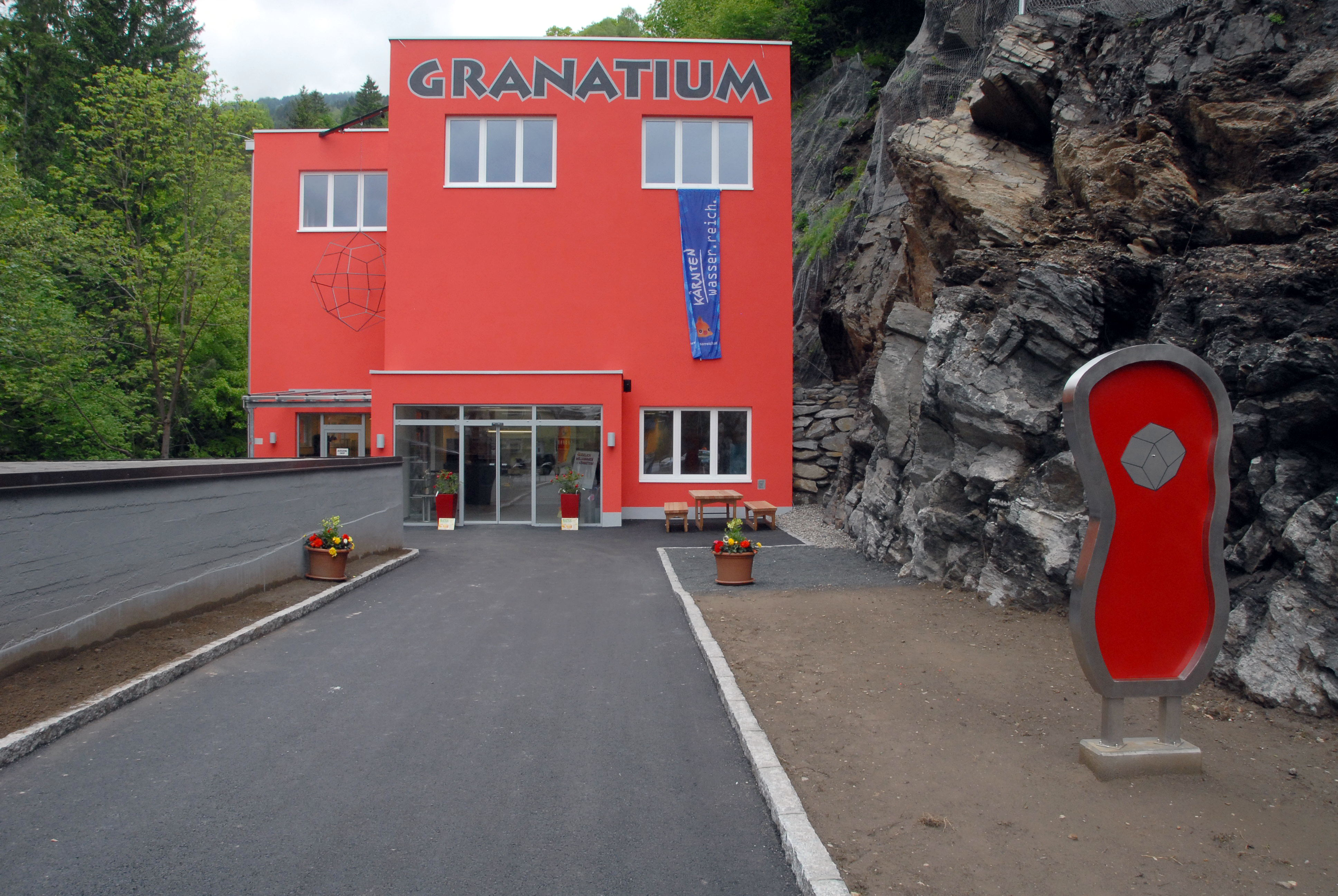 "Granatium" at Radenthein, district Spittal an der Drau, Carinthia, Austria